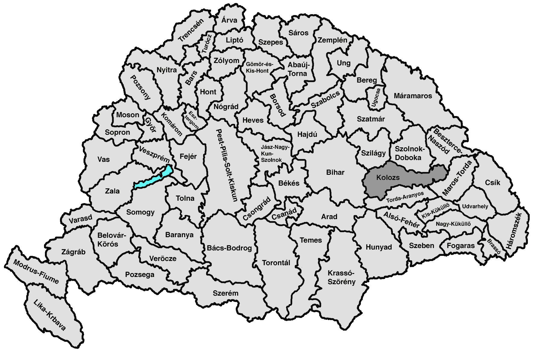 own edit of Image:Zala.png